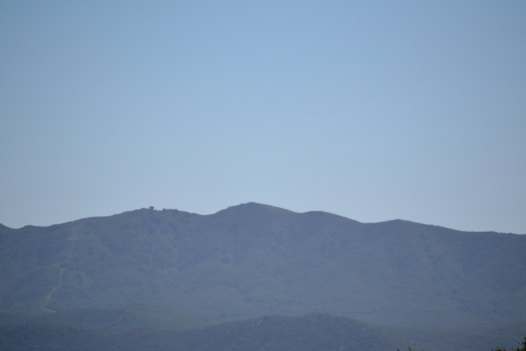 A photo of Margarita Peak in San Diego County.